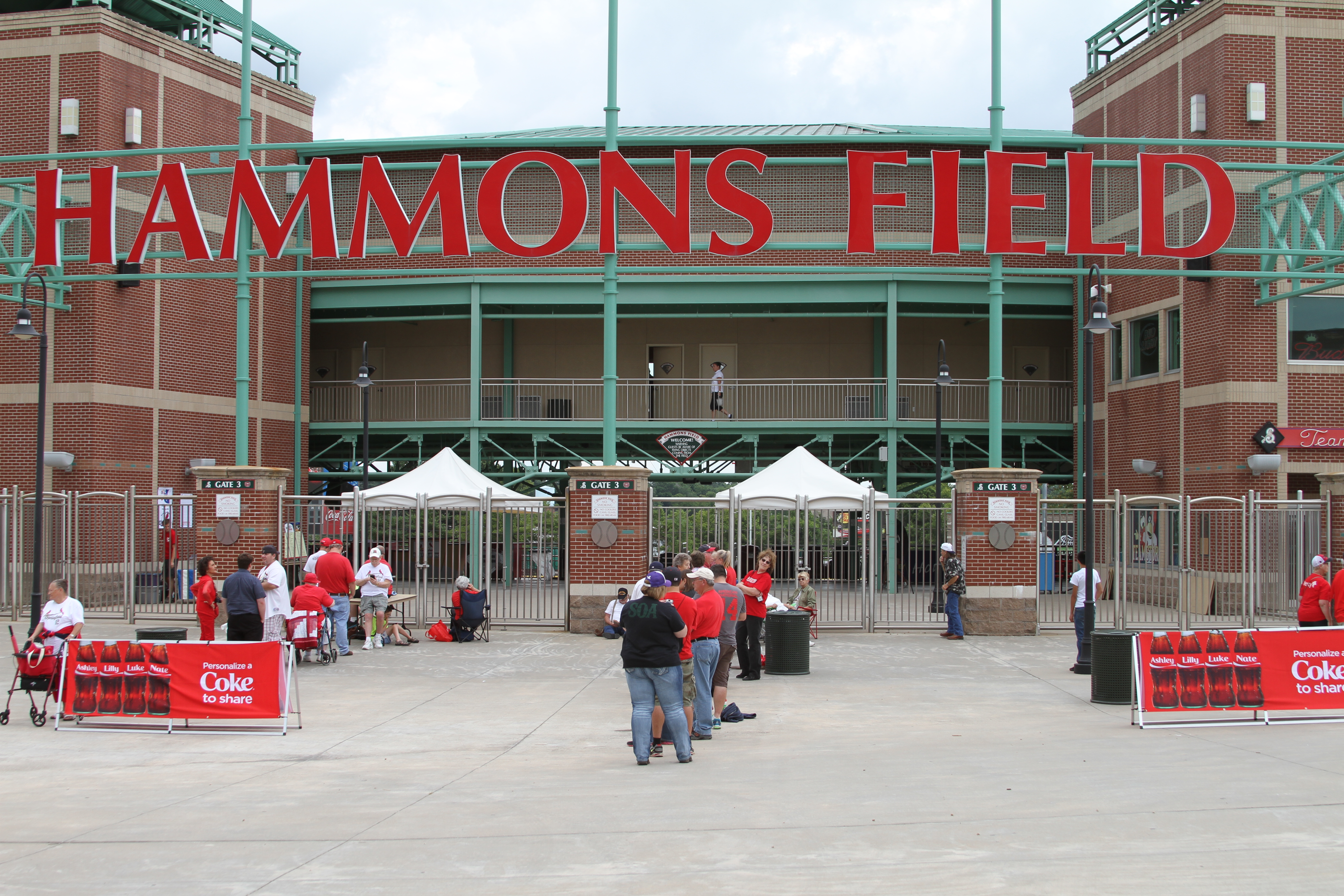 Bobber the Water Safety Dog and members from both the Kansas City District and the Little Rock District attend the July 17, 2014, Springfield Cardinals minor league game at Hammons Field to bring the important message of water safety to hundreds of fans. Photo by David S. Kolarik.